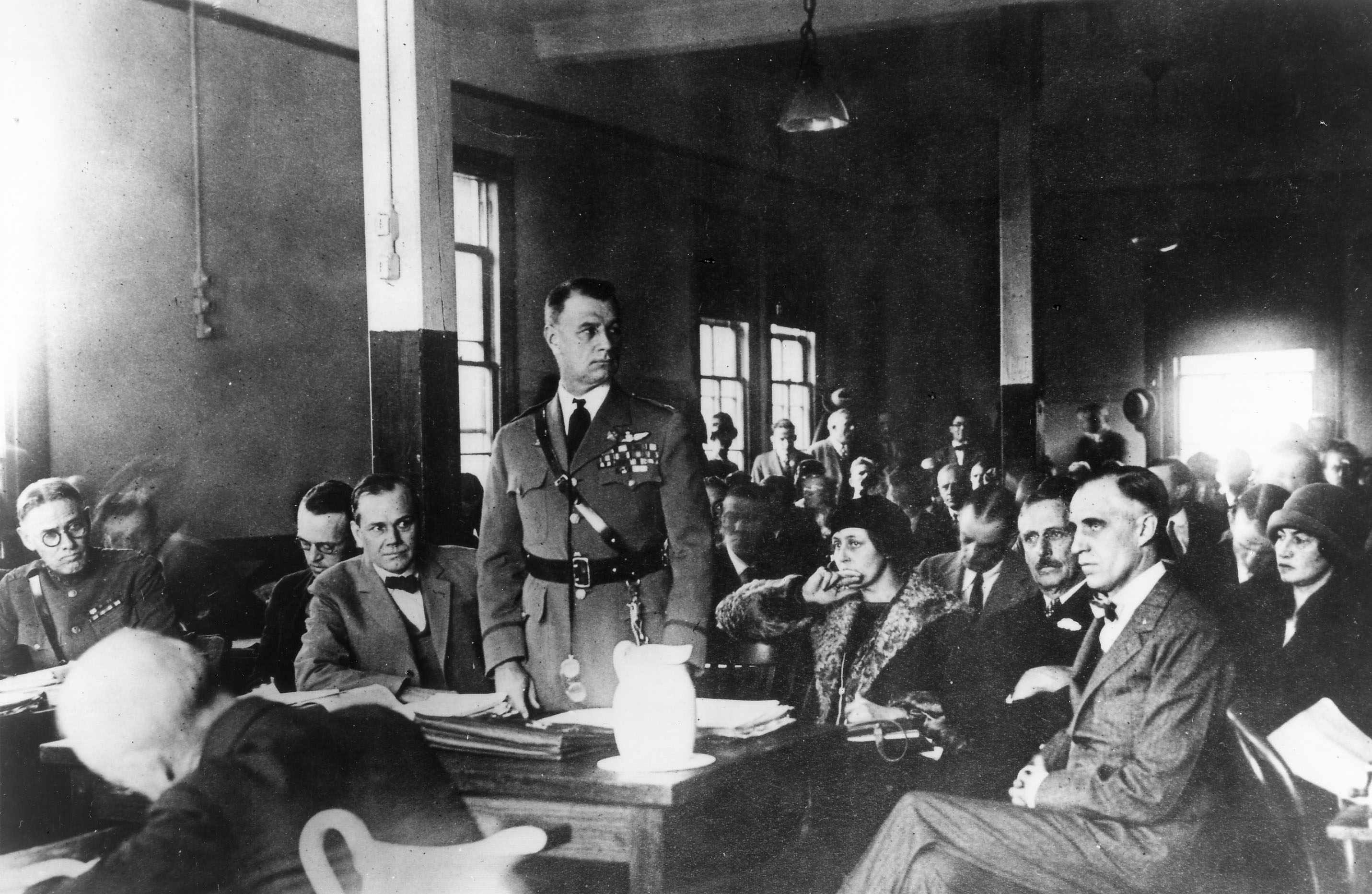 A scene taken from Gen. William "Billy" Mitchell's court-martial, 1925. (U.S. Air Force photo)